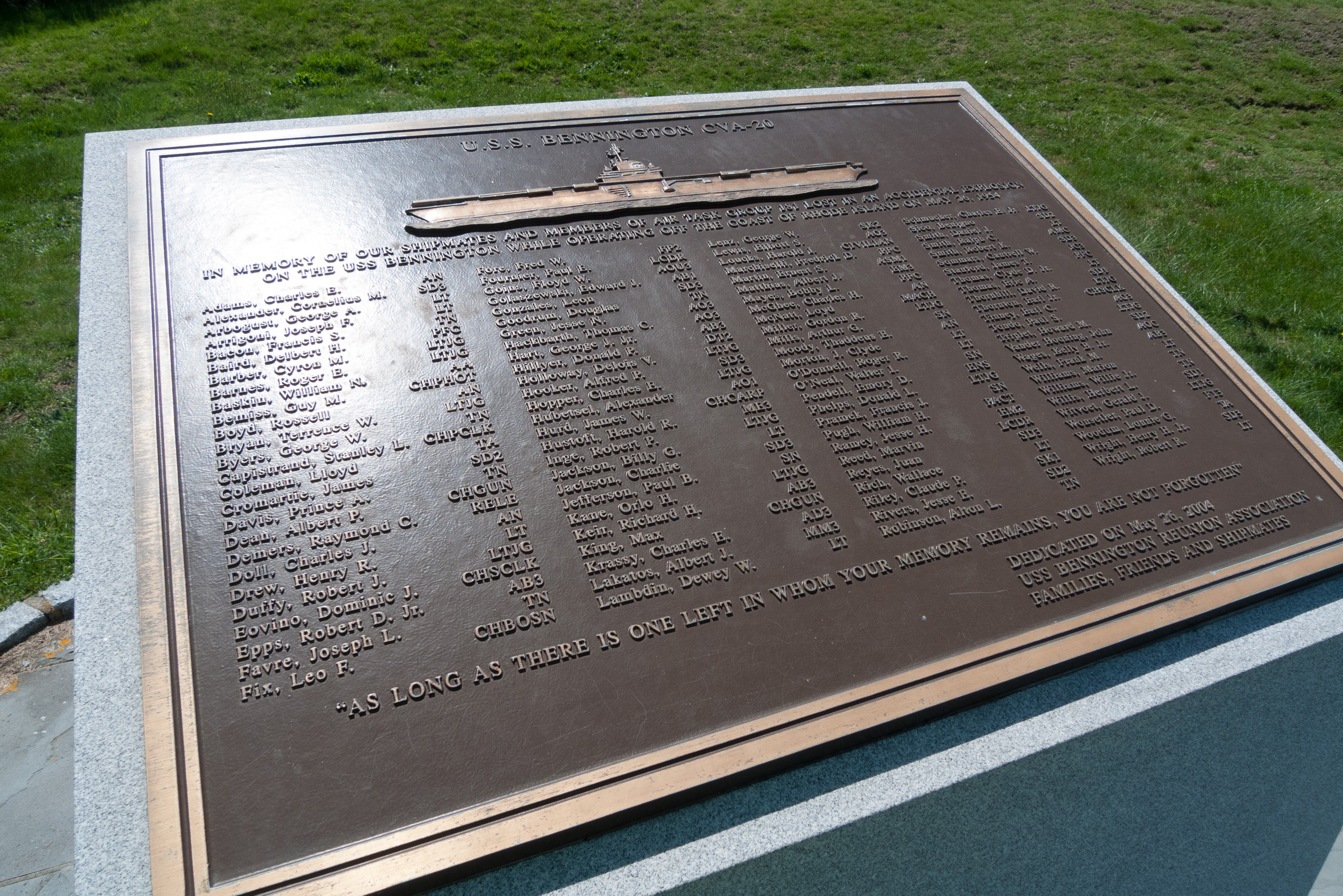 USS Bennington Memorial, Fort Adams State Park, Newport, Rhode Island